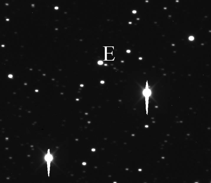 2 minute exposure of asteroid 52 Europa (bright star to lower left of E) with a 24" telescope. Europa is apparent magnitude 11.7 in this image taken at 2009-09-22 11:15 UT. (Astronomical twilight would be at 11:45 UT with sunrise at 13:15 UT.) To the lower right of Europa is HD 39395 at apmag 8.3 and to the lower left of Europa is HD 248796 at apmag 8.8. Both of these stars are over exposed resulting in the white streaks. To the upper right of Europa and HD 39395 is TYC 1312-2824-1 at apmag 11.3 (comparable to the brightness of Europa.)